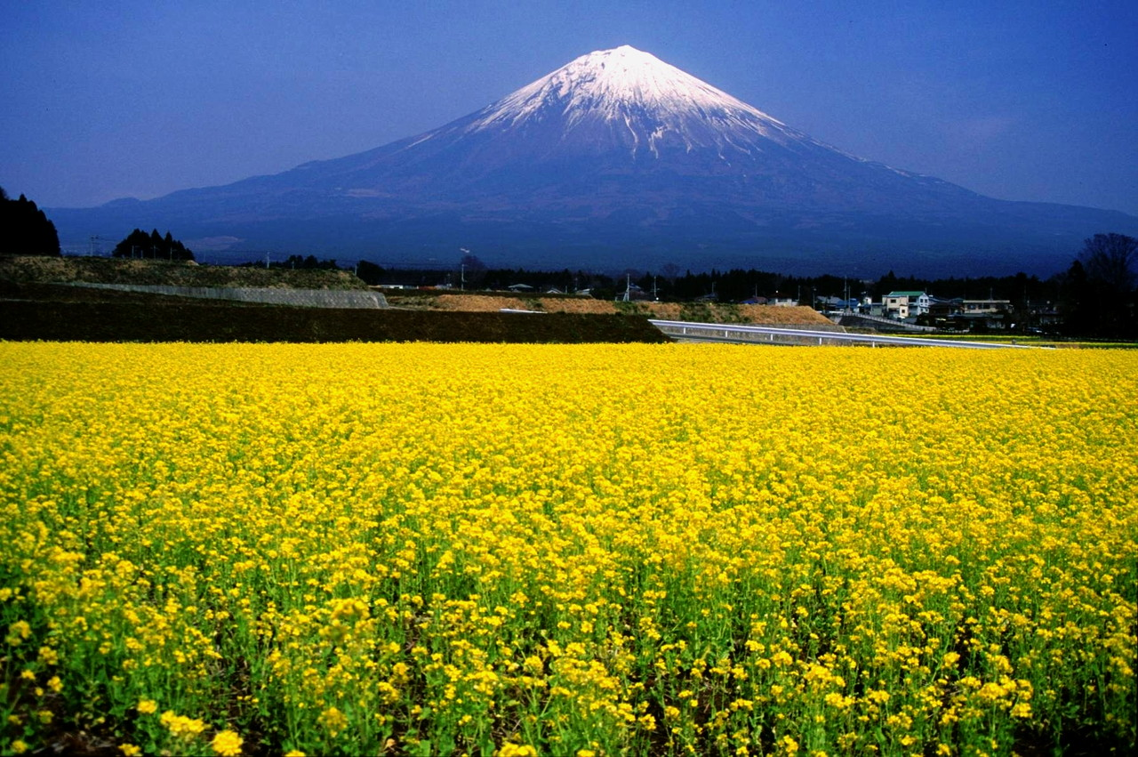 Mount Fuji and Broccolini Field